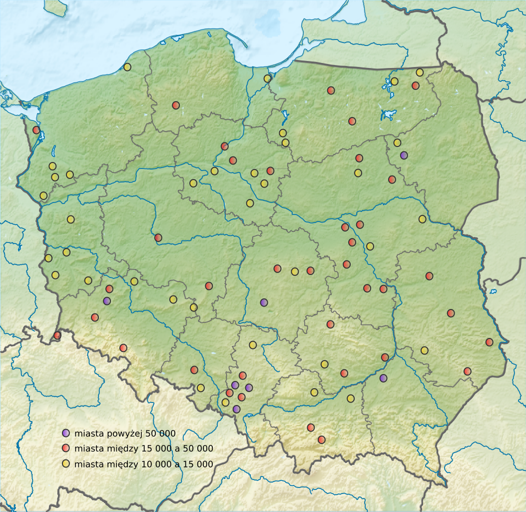 Cities above 10 000 with no railway connections in Poland